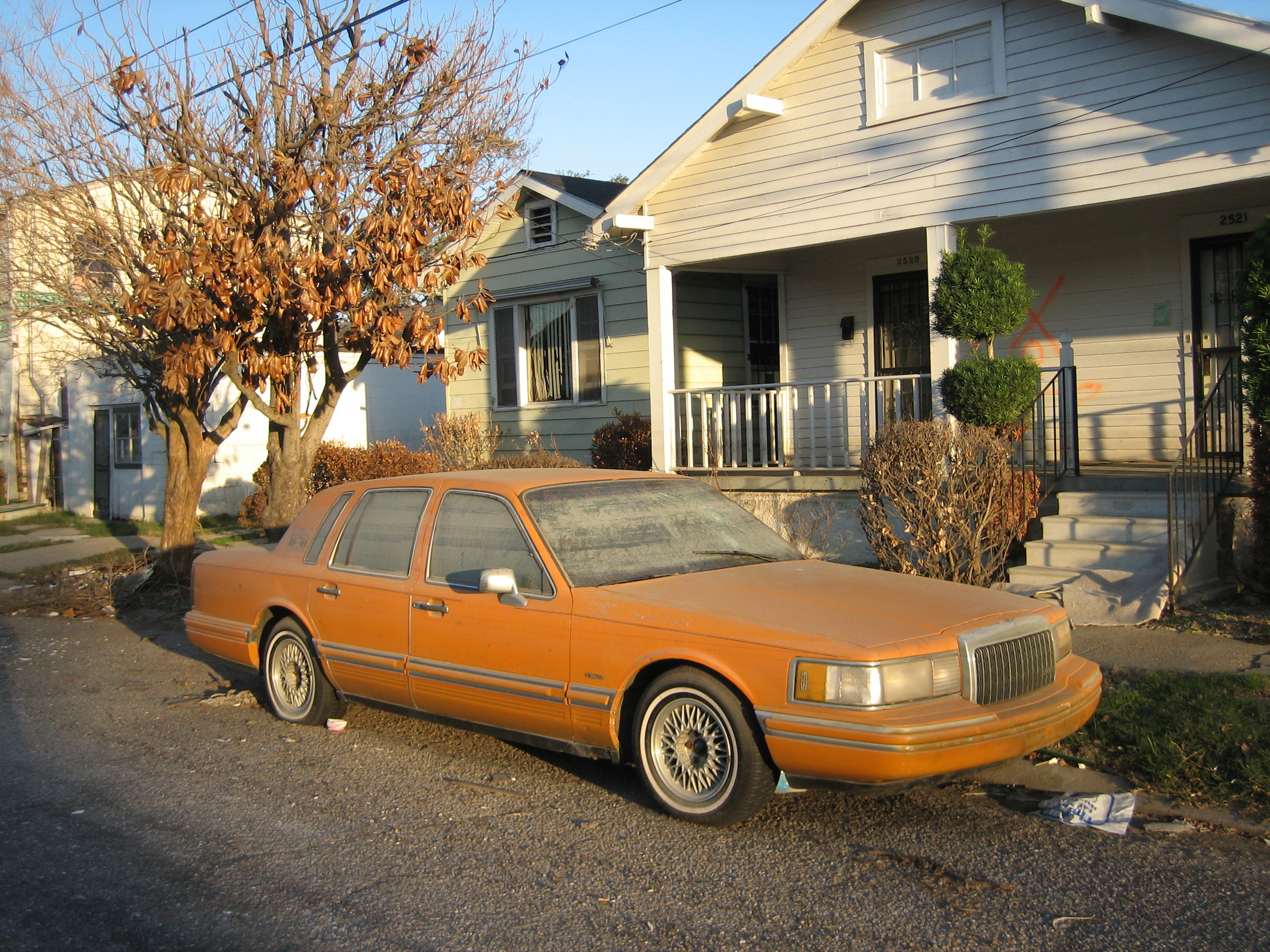 Street scene in formerly flooded Hollygrove neighborhood of New Orleans. Flooded out car (decommissioned taxi cab? Orange color and marking on back from cab, but no sign on top) shows long standing water levels were above roof of car.